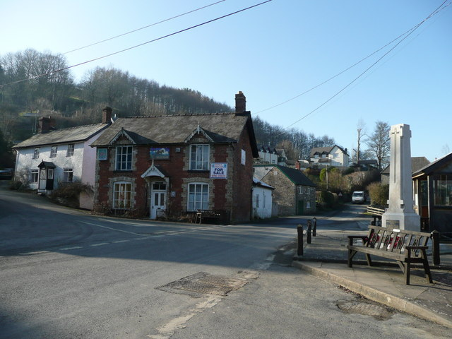 Llangunllo village centre The Greyhound pub is sadly closed and up for sale, having been temporarily usedas a community shop. To the right is an impressive deco-style war memorial. The B4356 proceeds through the village.